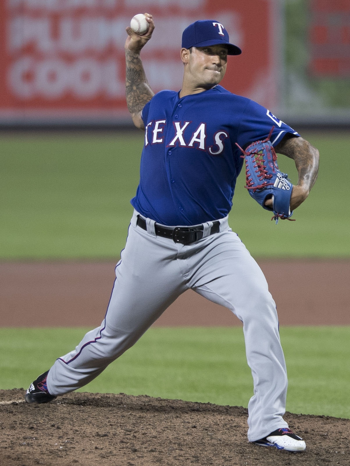 Rangers at Orioles 7/19/17